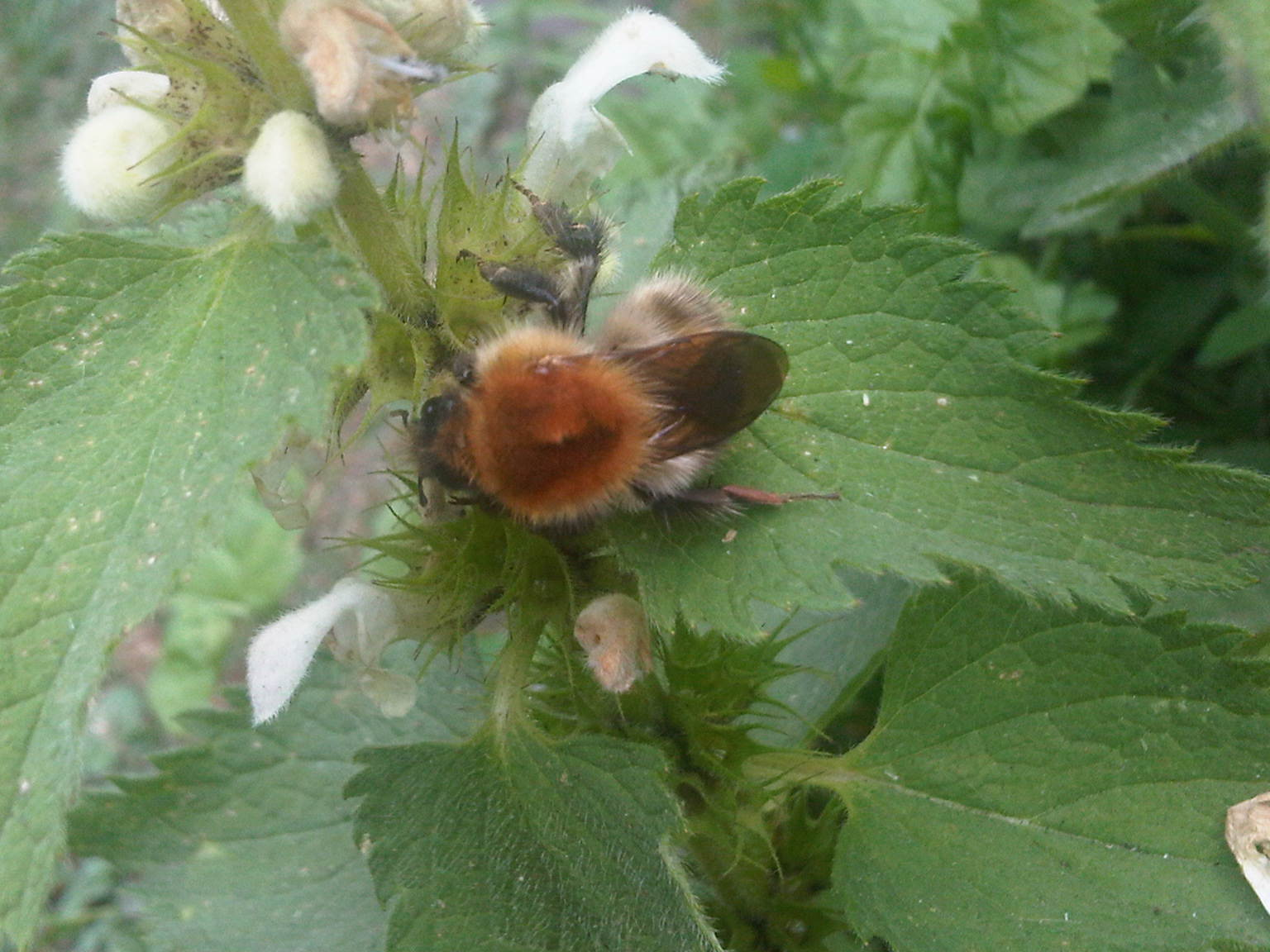 A working female Common Carder-bee (Bombus pascuorum) in London, England.